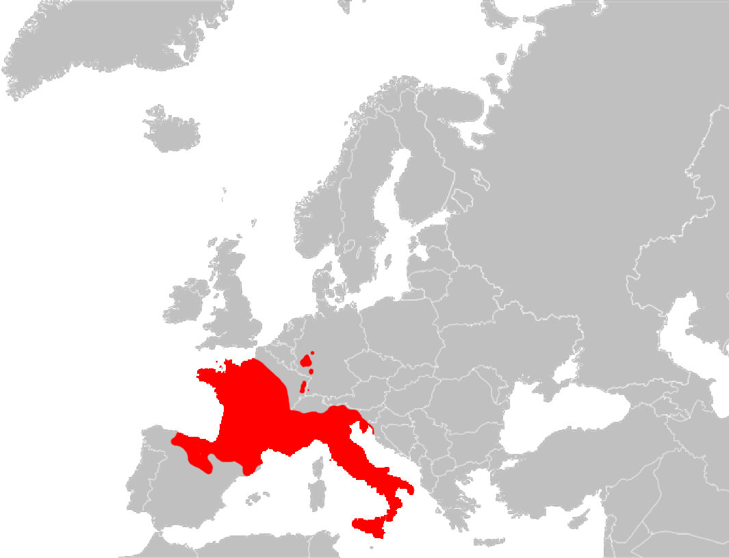 Lacerta bilineata range map.